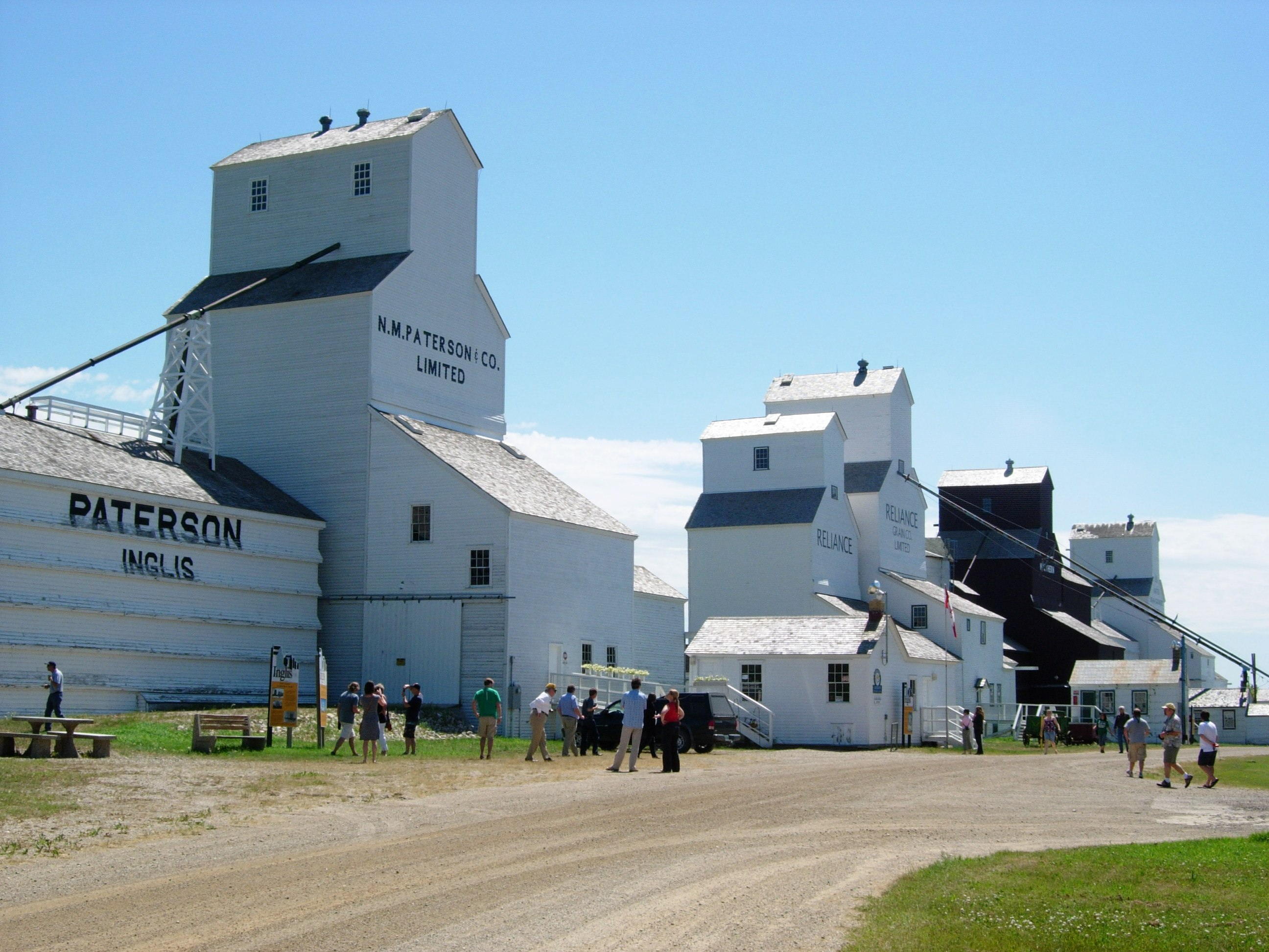 A group of five grain elevators